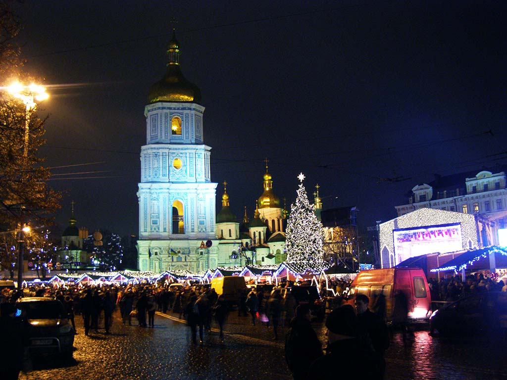 St Nicholas Day. St. Sophia Square in Kyiv. Christmas Fair